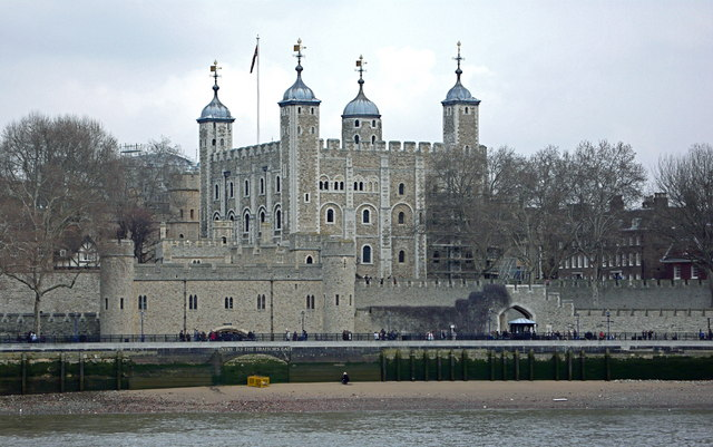 Home to criminals, princes and ravens From the south bank of the Thames.